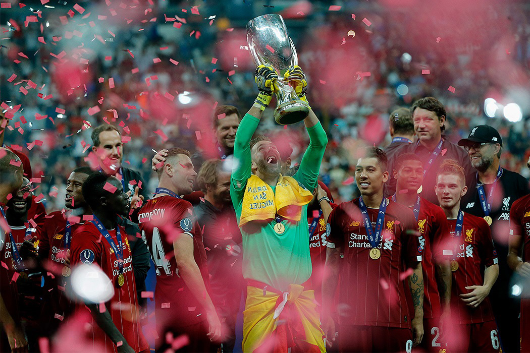 Liverpool vs. Chelsea, 2019 UEFA Super Cup